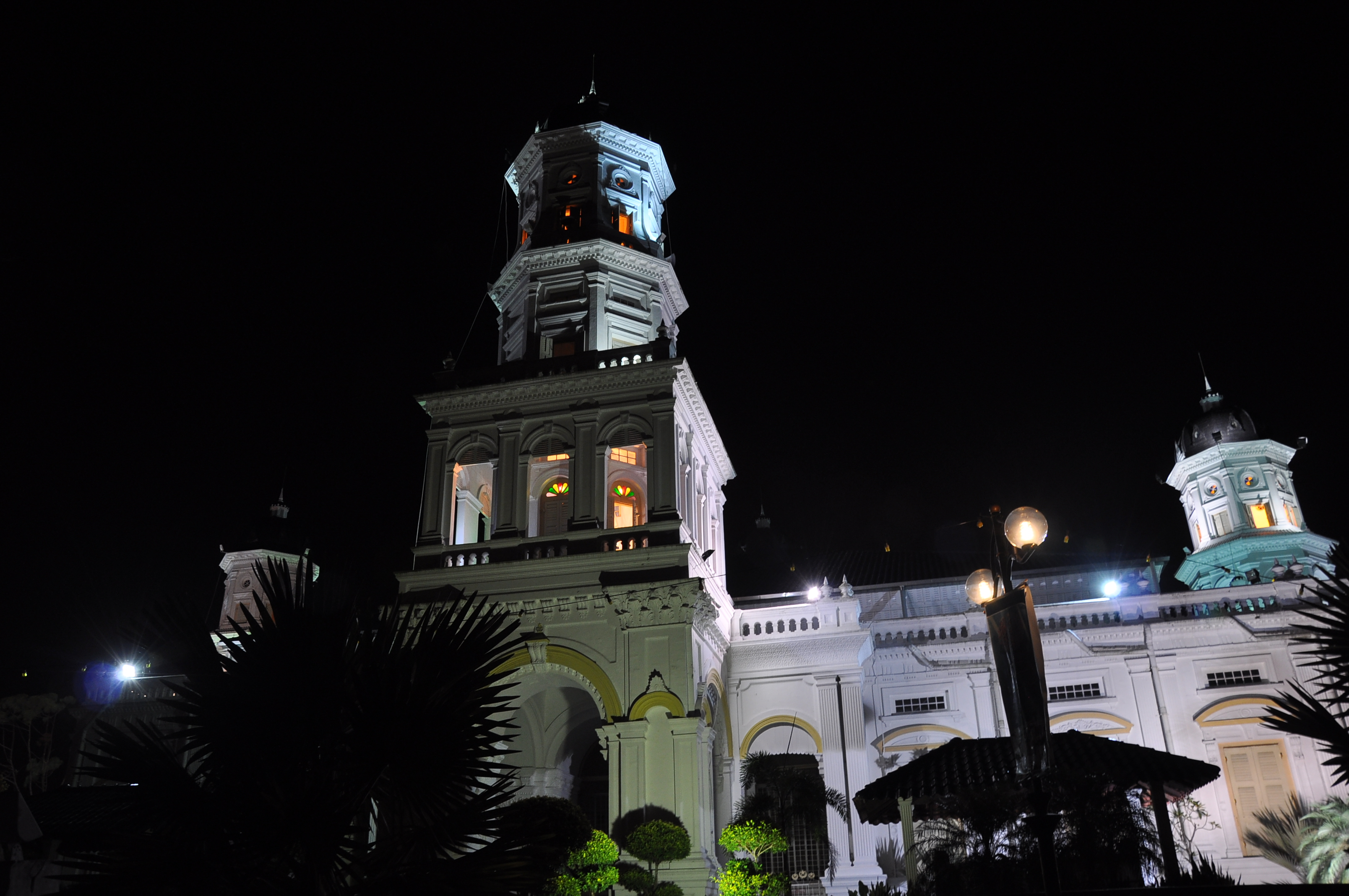 Masjid Negeri Sultan Abu Bakar at night.